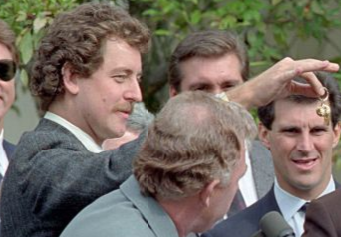 Frank Viola presents a whistle to President Ronald Reagan During a Ceremony to Congratulate The Minnesota Twins Baseball Team, Winners of The 1987 World Series